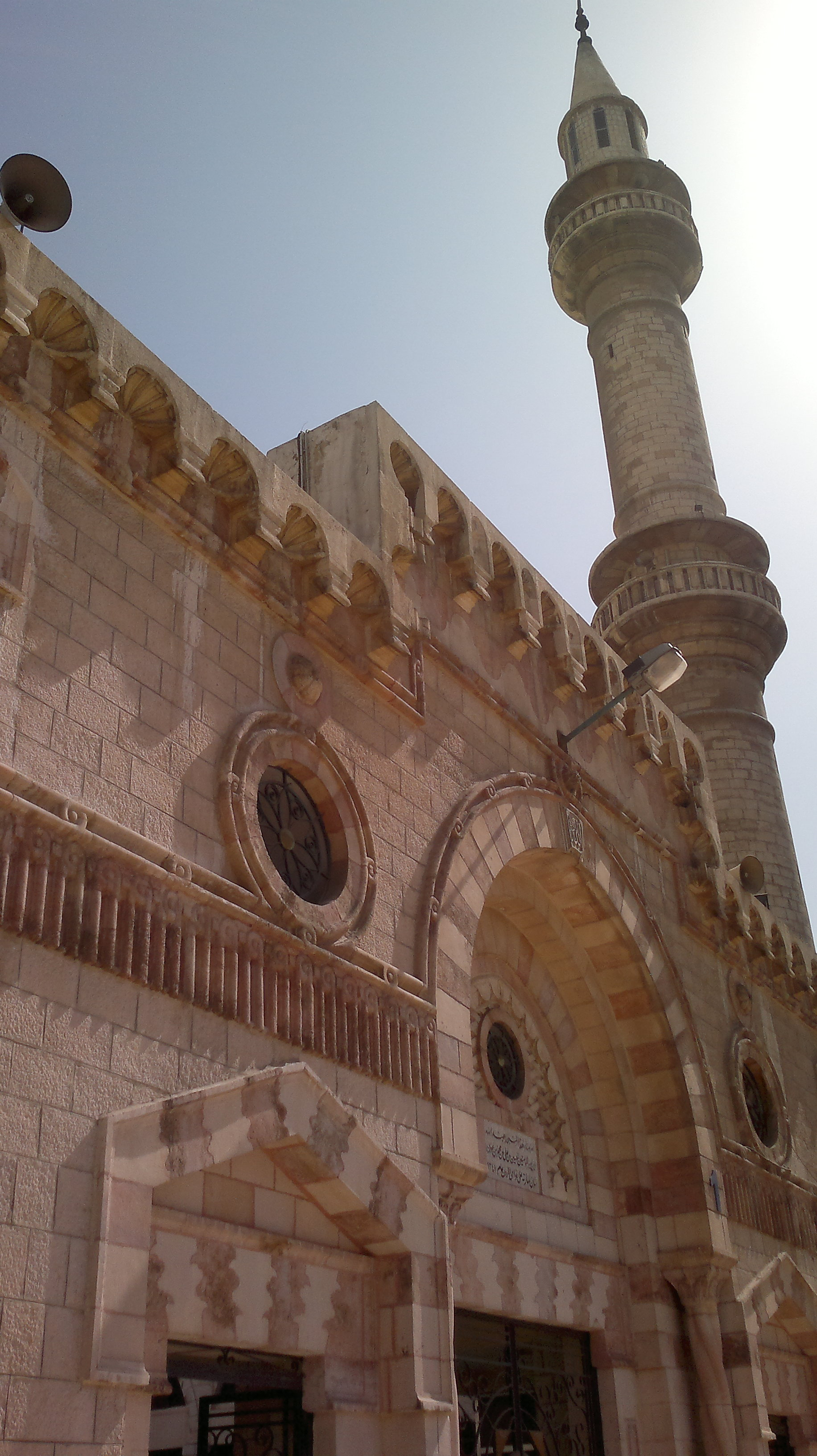 Husseini Mosque, Amman